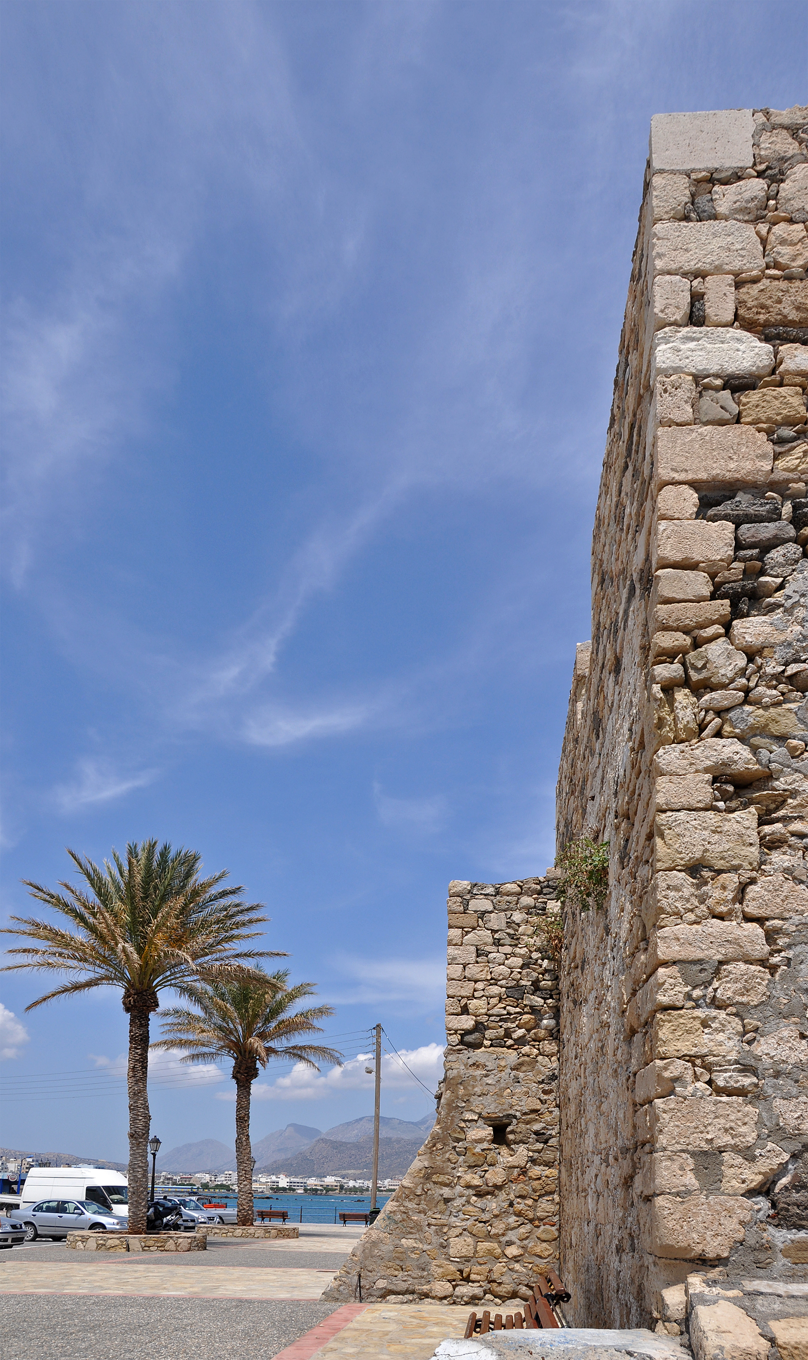 Ierapetra (Crete, Greece): Kales Fortetsa, i.e. the old Venetian fort